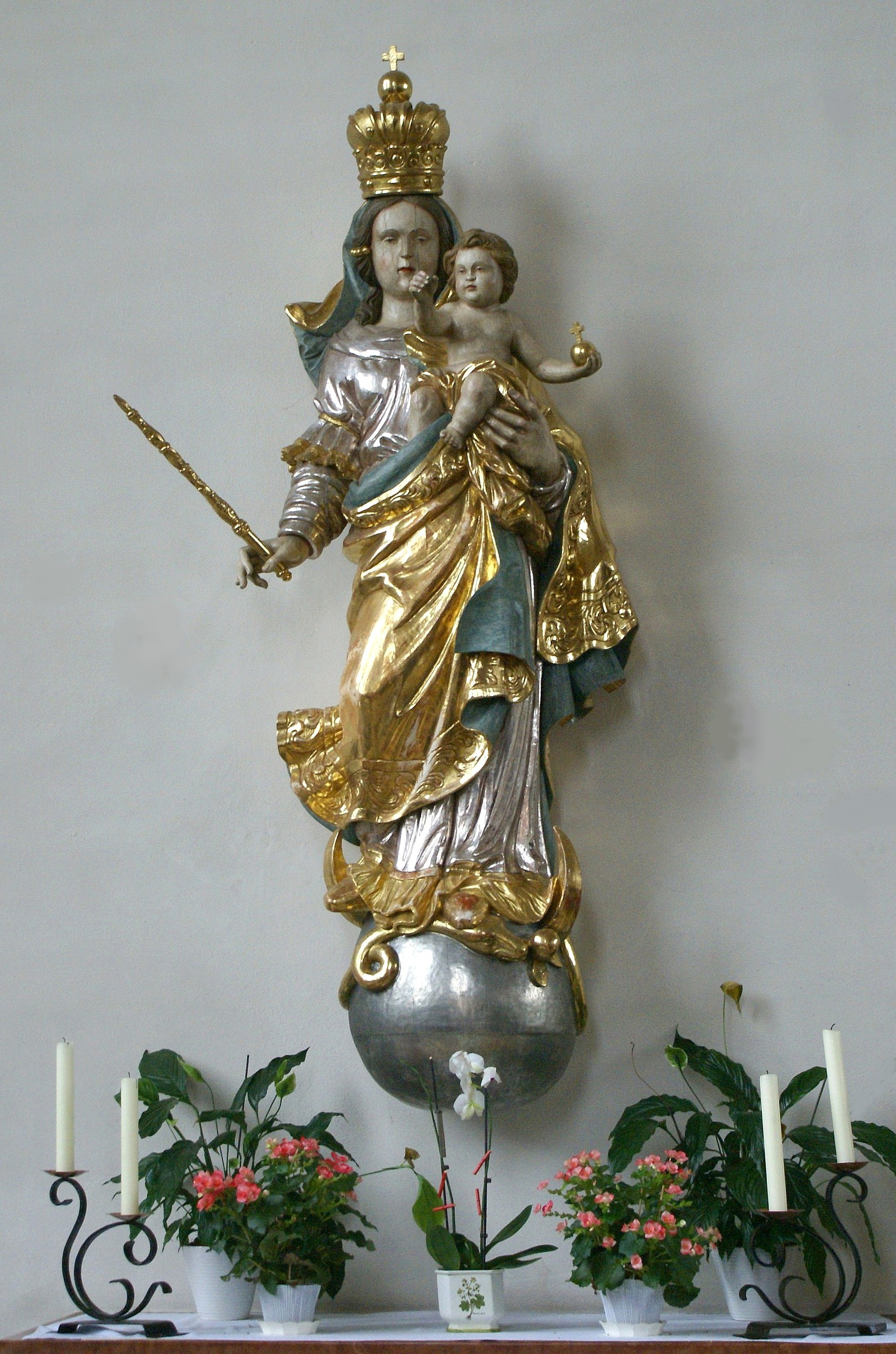 Statue in the parish church St. Maria Magdalena in Geiselbach